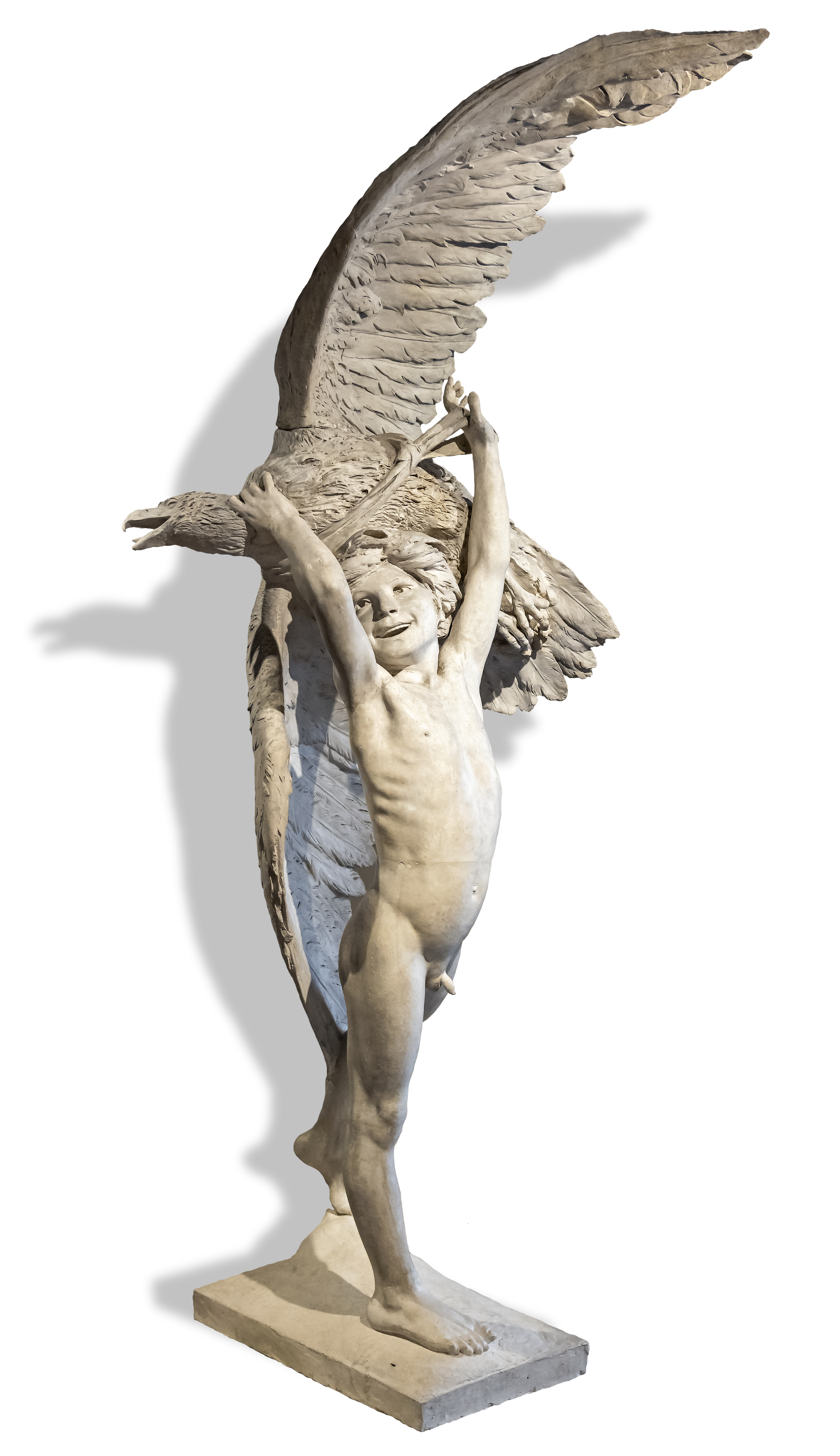 Depicted person: Hannibal – Carthaginian general during the Second Punic War with the Roman Republic